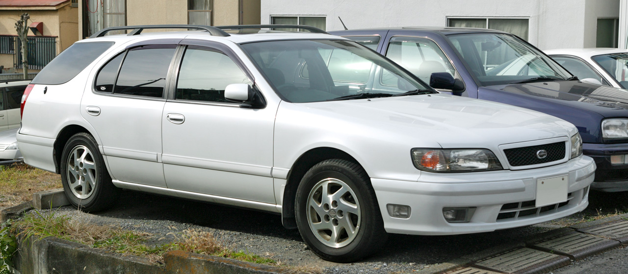 Nissan Cefiro Wagon